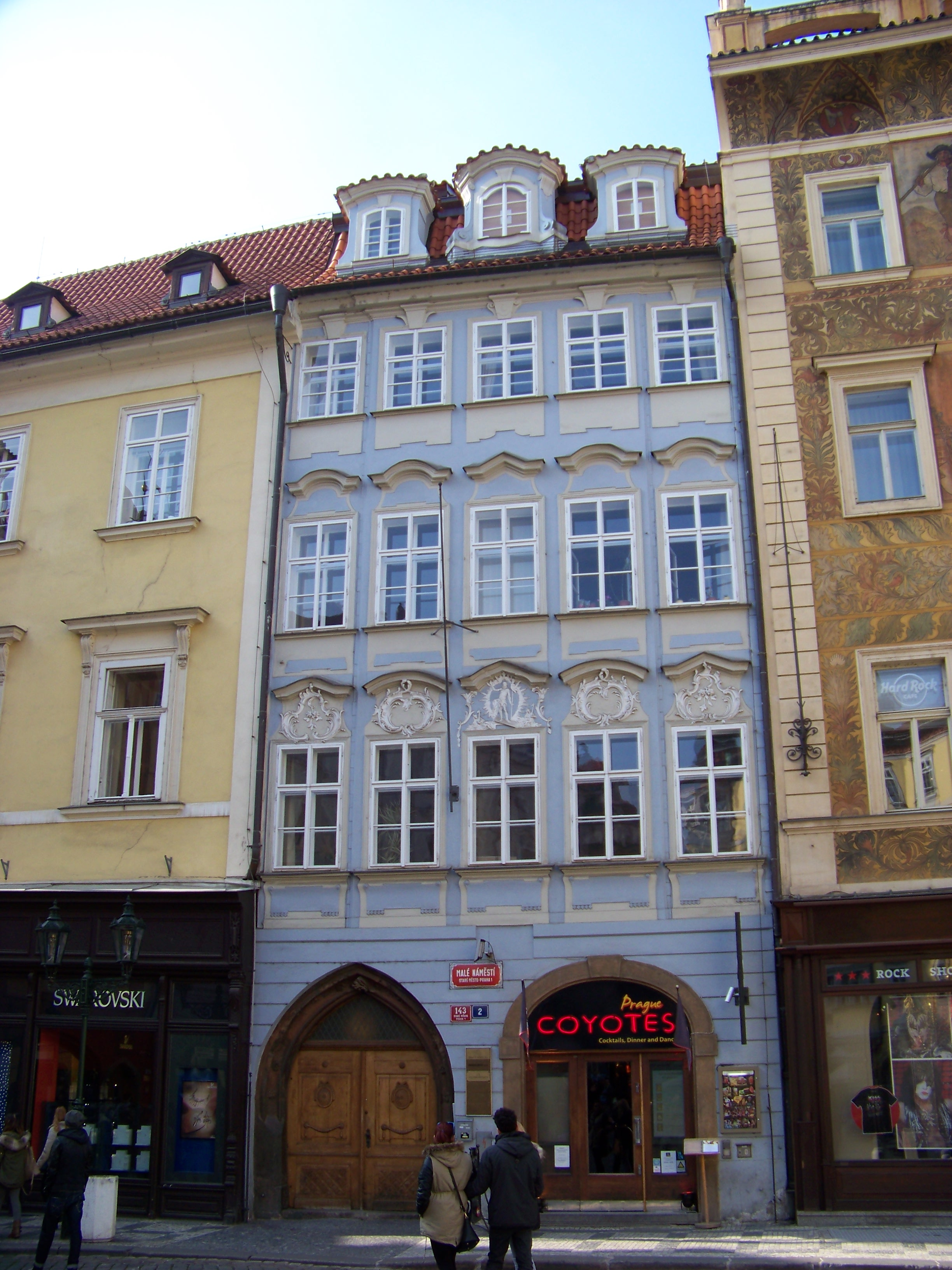 Prague-Old Town, Czech Republic. Malé náměstí 143/2.